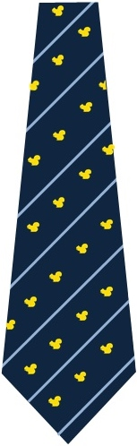 Blue Coat School Old Boys' Tie